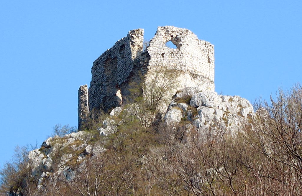 Okić old town